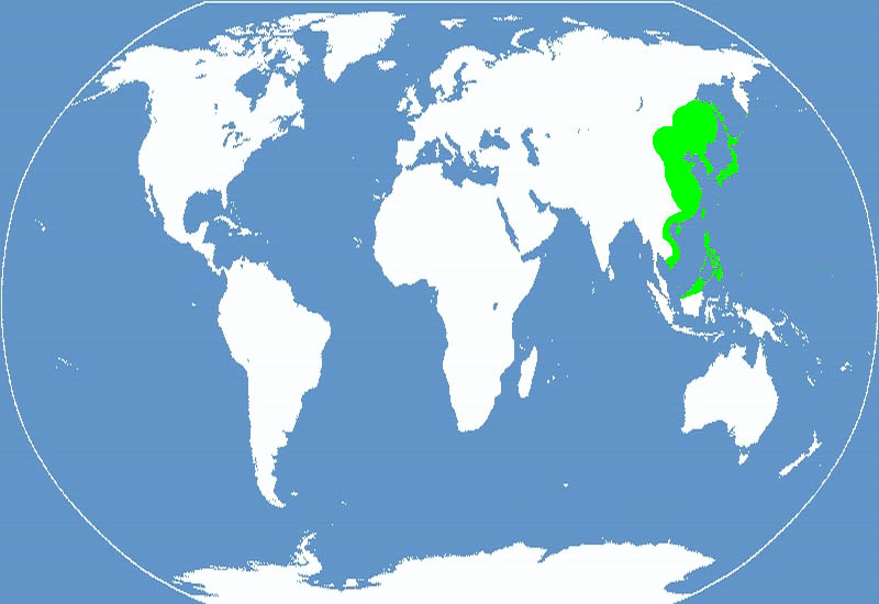 Map of Japan, as portrayed in the "2009: Lost memories" film